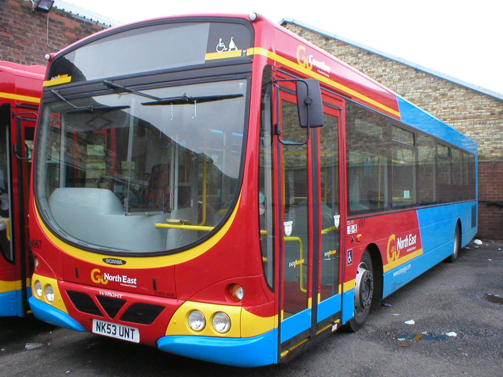 from